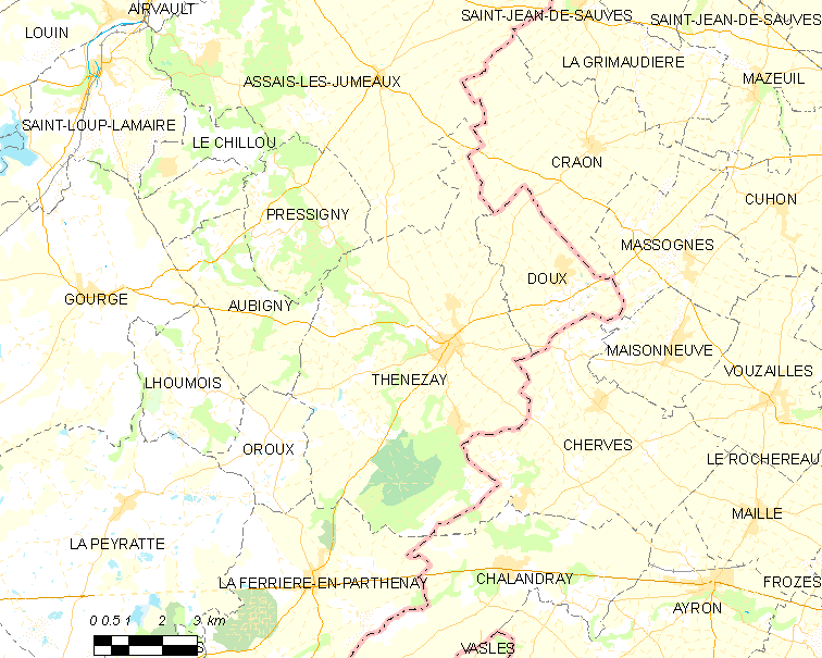 Map of French municipality Thénezay